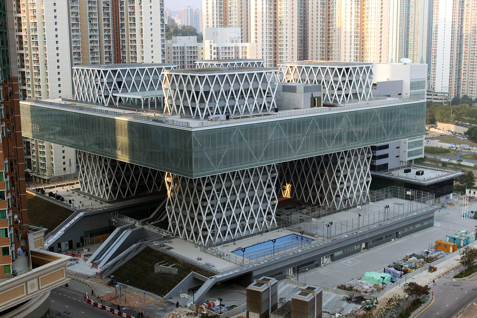 HKDI Campus at Tseung Kwan O